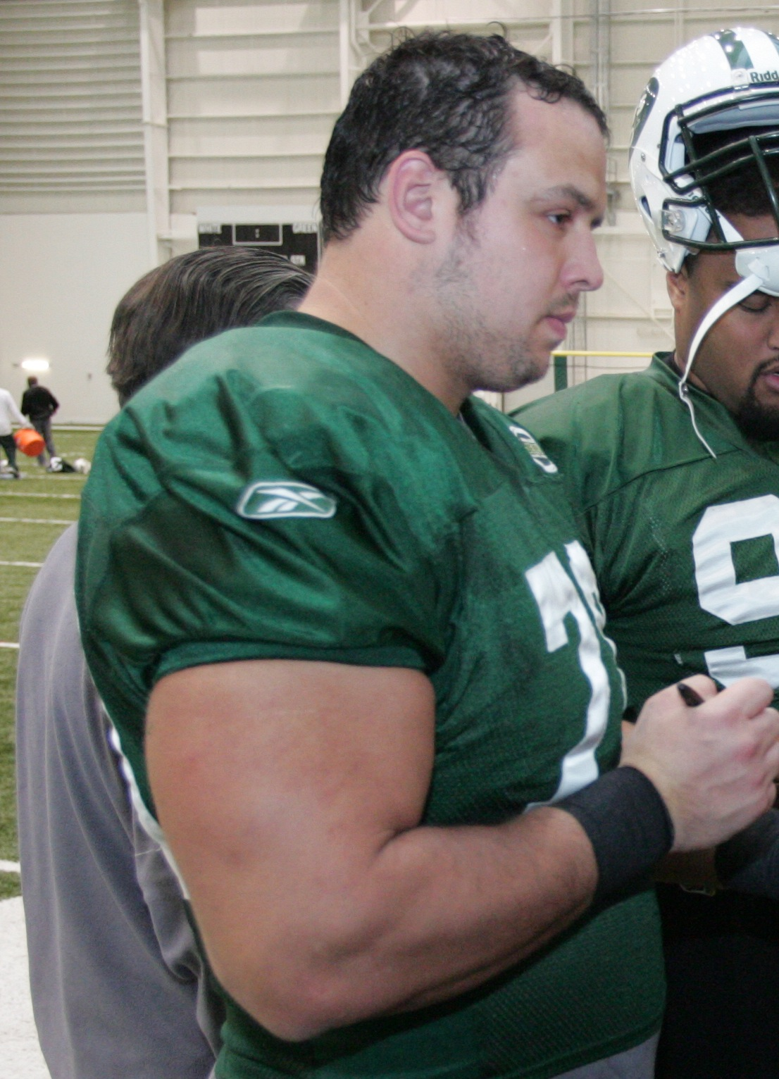 FLORHAM PARK, N.J. -- Marines from Recruiting Station New Jersey meet with Mike DeVito, #70 defensive end, New York Jets, and Sione Pouha, #91 defensive end, New York Jets, during a tour of the team's practice facility Nov. 13. The team invited service members to their practice and Sunday the Jets will honor military veterans during their military appreciation day. (Official Marine Corps photo by Sgt. Randall A. Clinton) This file has been extracted from another file: Mike DeVito Sione Pouha Marine Corps.jpg